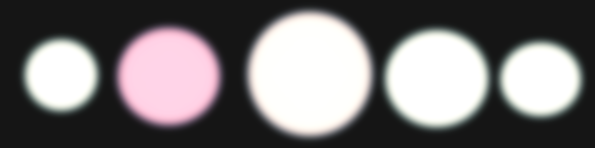 Pulsating star eg. cepheid.